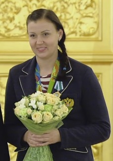 Vladimir Putin presented state awards to the Russian athletes who won gold medals at the 2016 Olympic Games in Rio de Janeiro (Brazil). Tatiana Erokhina is an Olympic champion in women's handball.